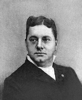 Gus Williams, Comedian and song Writer